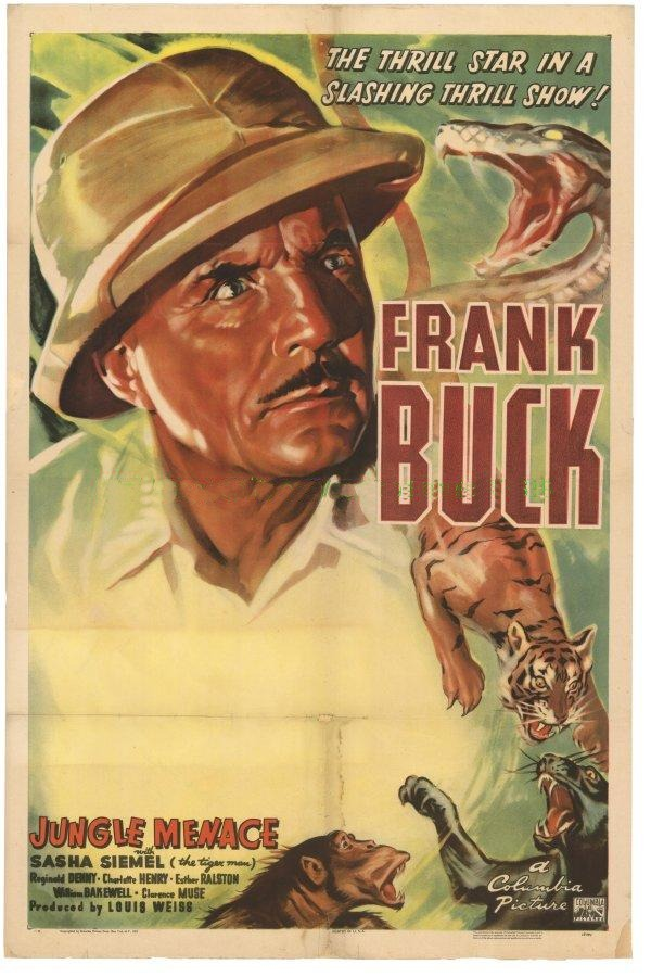 Poster for the American film serial Jungle Menace (1937).